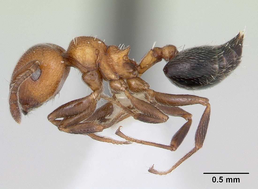 Profile view of ant Crematogaster thalia specimen casent0173951.